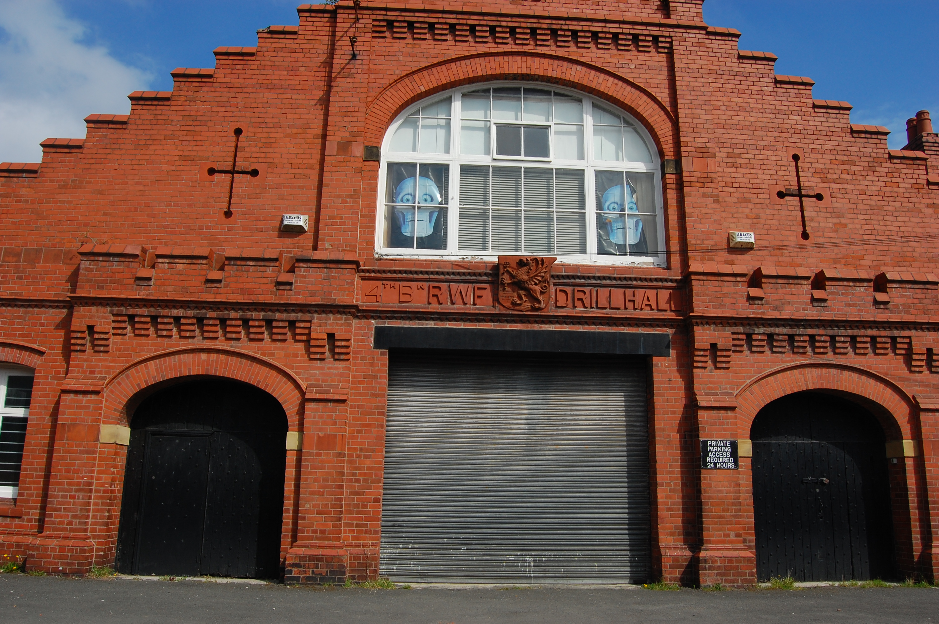 The former Royal Welch Fusiliers Drill Hall on Poyser Steet, Wrexham.